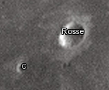 Rosse lunar crater as seen from Earth with satellite craters labeled